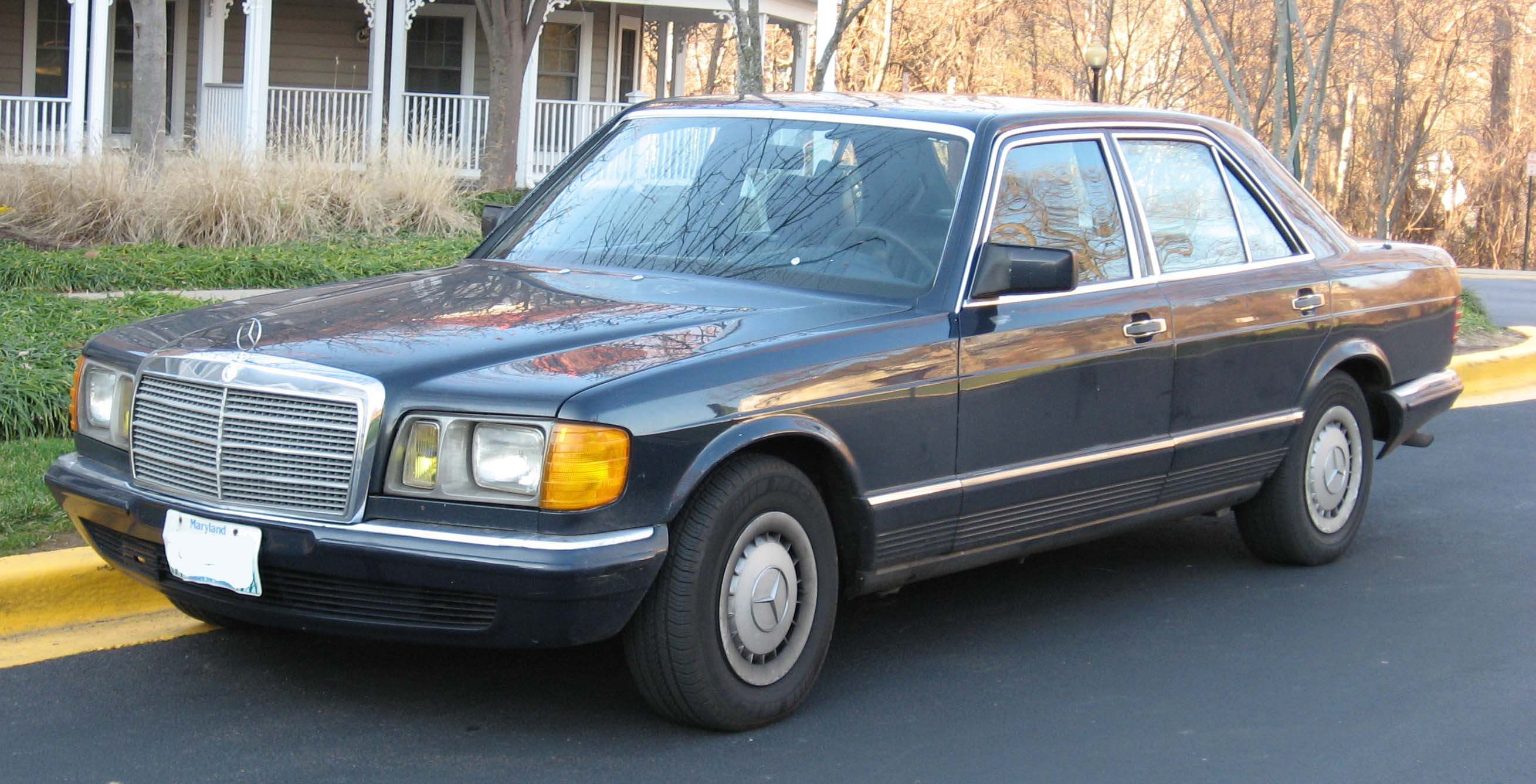 Mercedes-Benz W126 500SE photographed in the United States.